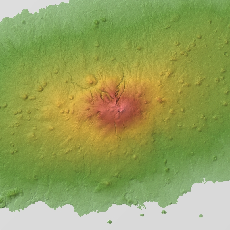 Jeju Island and Hallasan in South Korea.